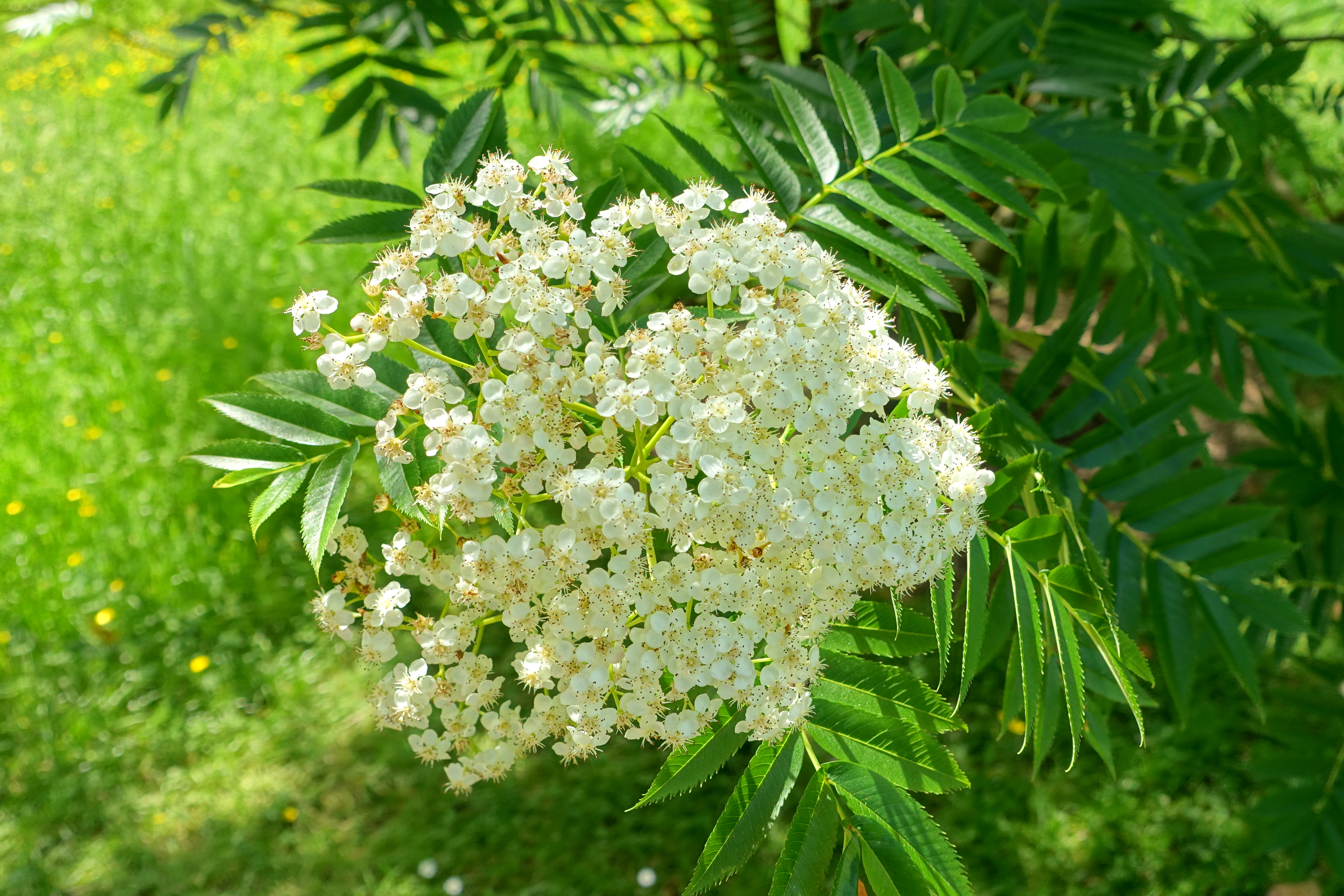 Horticultural specimen in Savill Garden - Windsor Great Park, England.